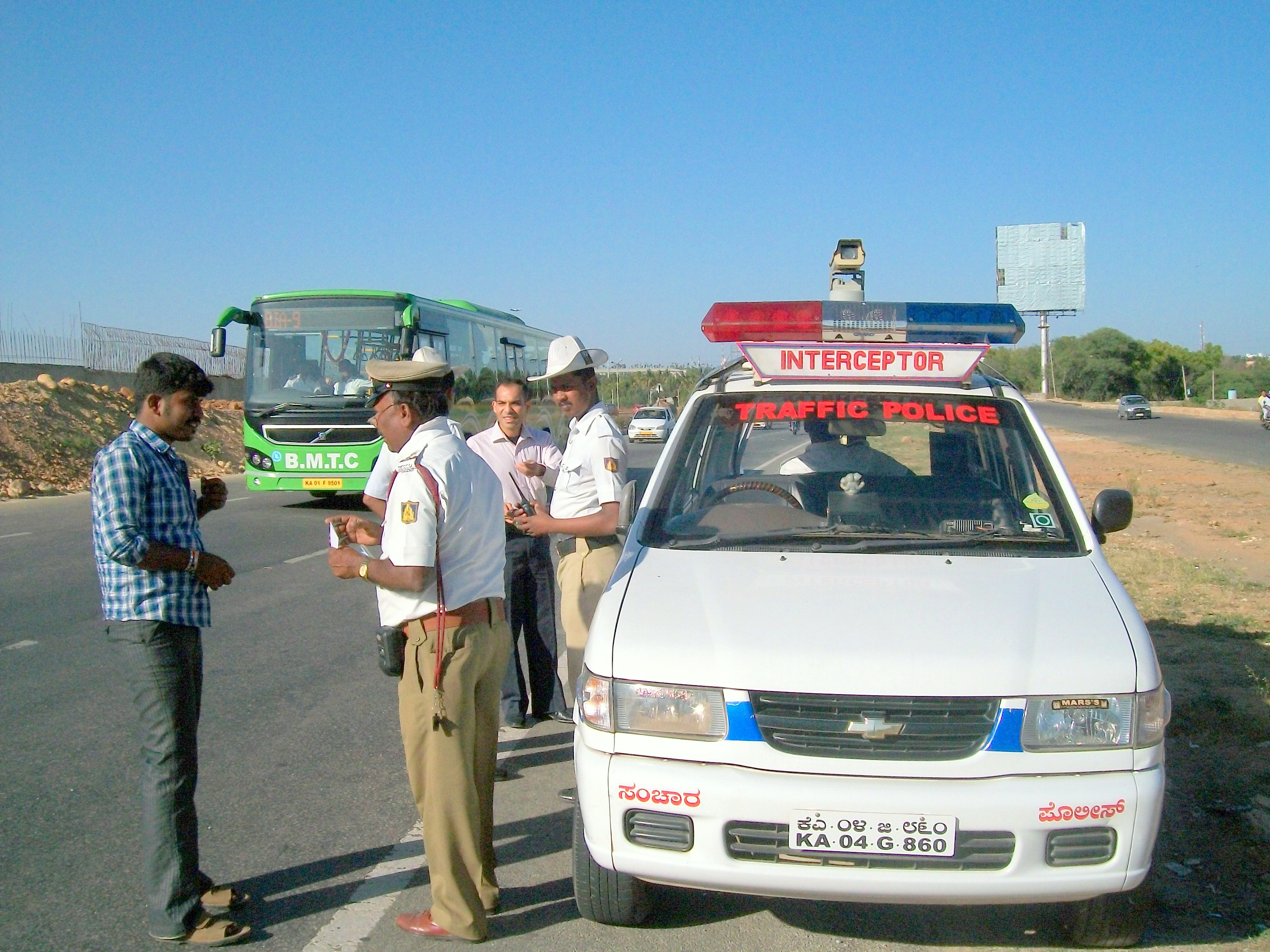 Interceptor of Bangalore Traffic Police at Bangalore Airport Road- Shown here Traffic Sub- Inspector of Police along with Police Constables in field action. - Photo taken with kind consent.